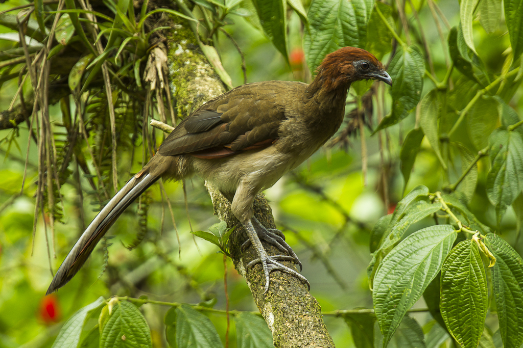 Rufous-headed Chachalaca - South-Ecuador_S4E8327